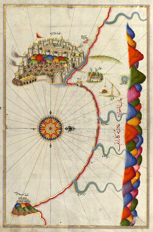 Alanya in Turkey on the Kitab-ı Bahriye (Book of Navigation) of Piri Reis.